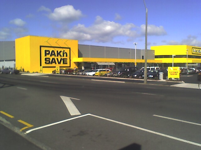 Pak'nSave store in New Plymouth.